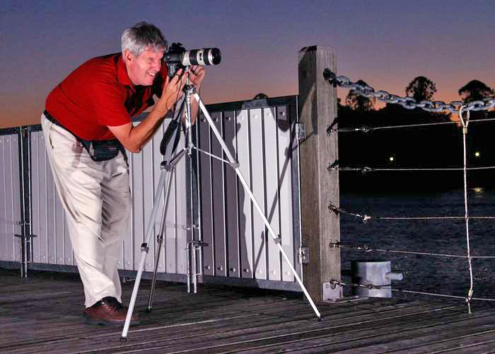 Rob McArthur taking a photo. Lit by two flashes sitting left & right, aperture priority to let the camera decide what's best for the background sky.